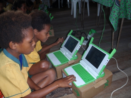 Children using XO